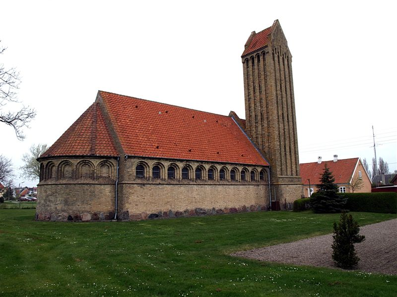 Gedser Kirke (church)